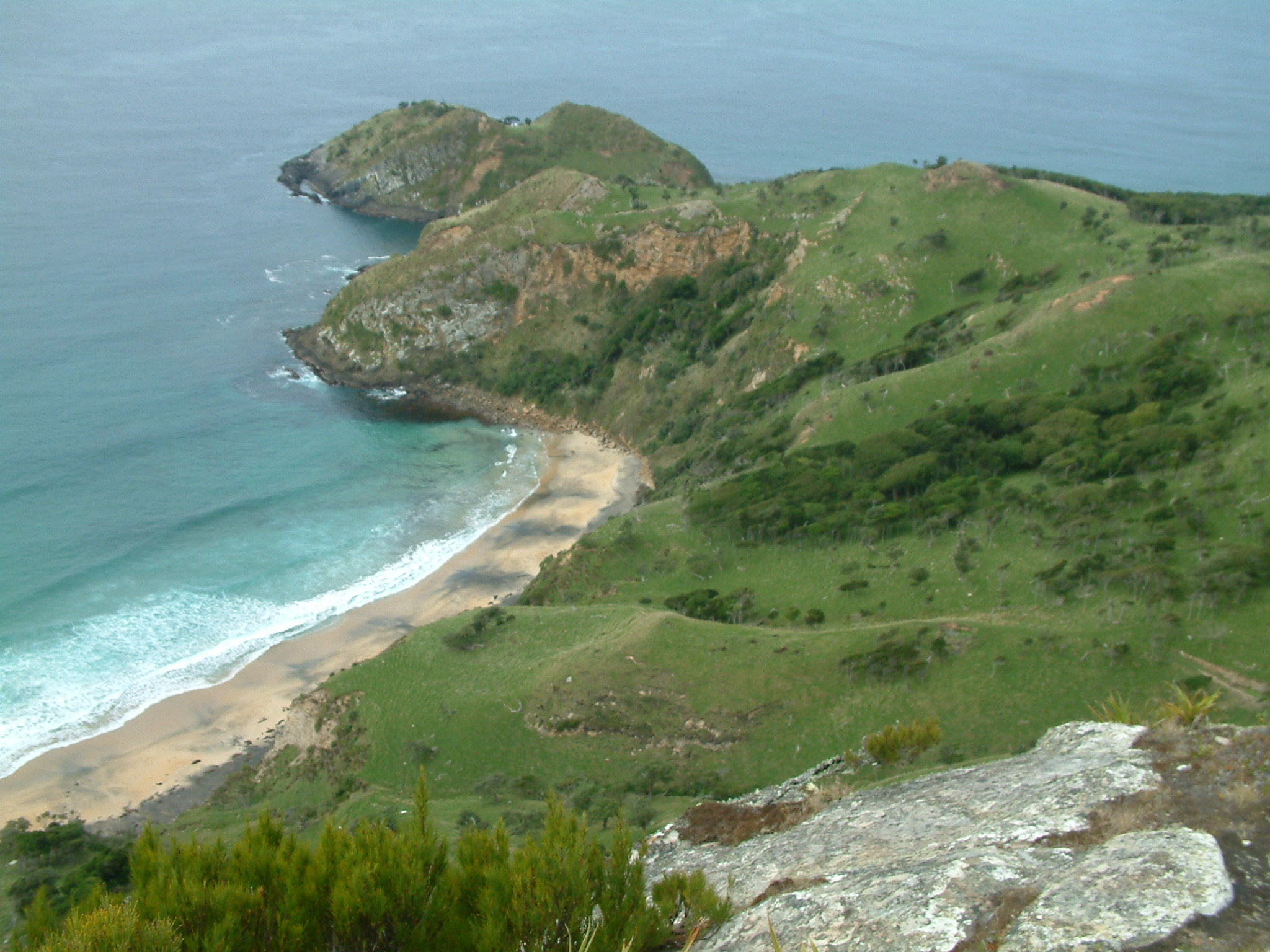 Kahuitara Point, Pitt Island, seen from Hakepa (blurred picture, alas, my only one)